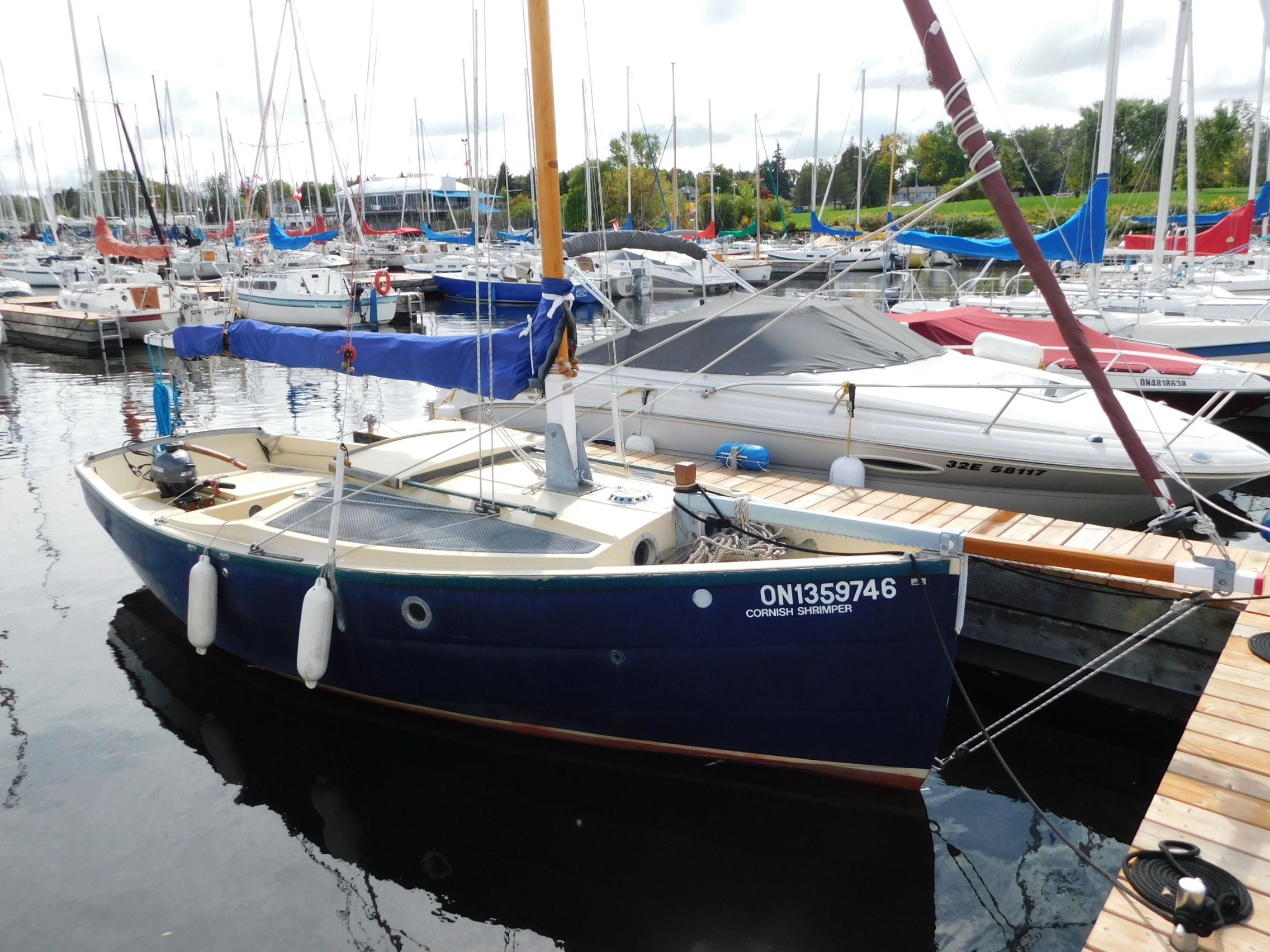 A Cornish Shrimper 19 sailboat named Starfish.